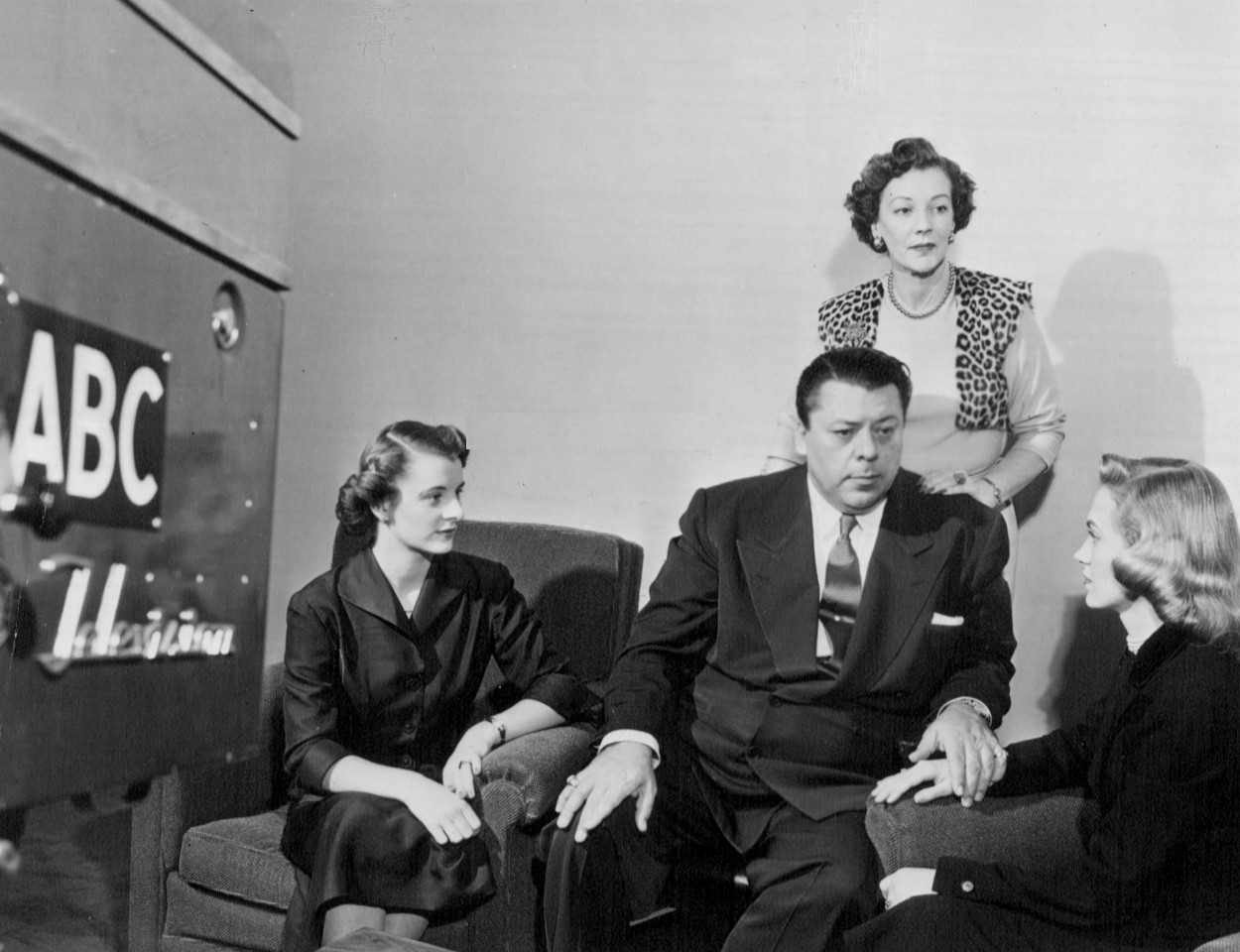 Photo of make up artist Ern Westmore on the set of his television program The Ern Westmore Show. The show aired under a variety of names. It aired on ABC in 1955. Standing behind him is his wife, Betty, who also worked on the program. The two seated women were guests from the studio audience. Westmore would choose guests from the audience and give them a "make-over" on the ptogram.